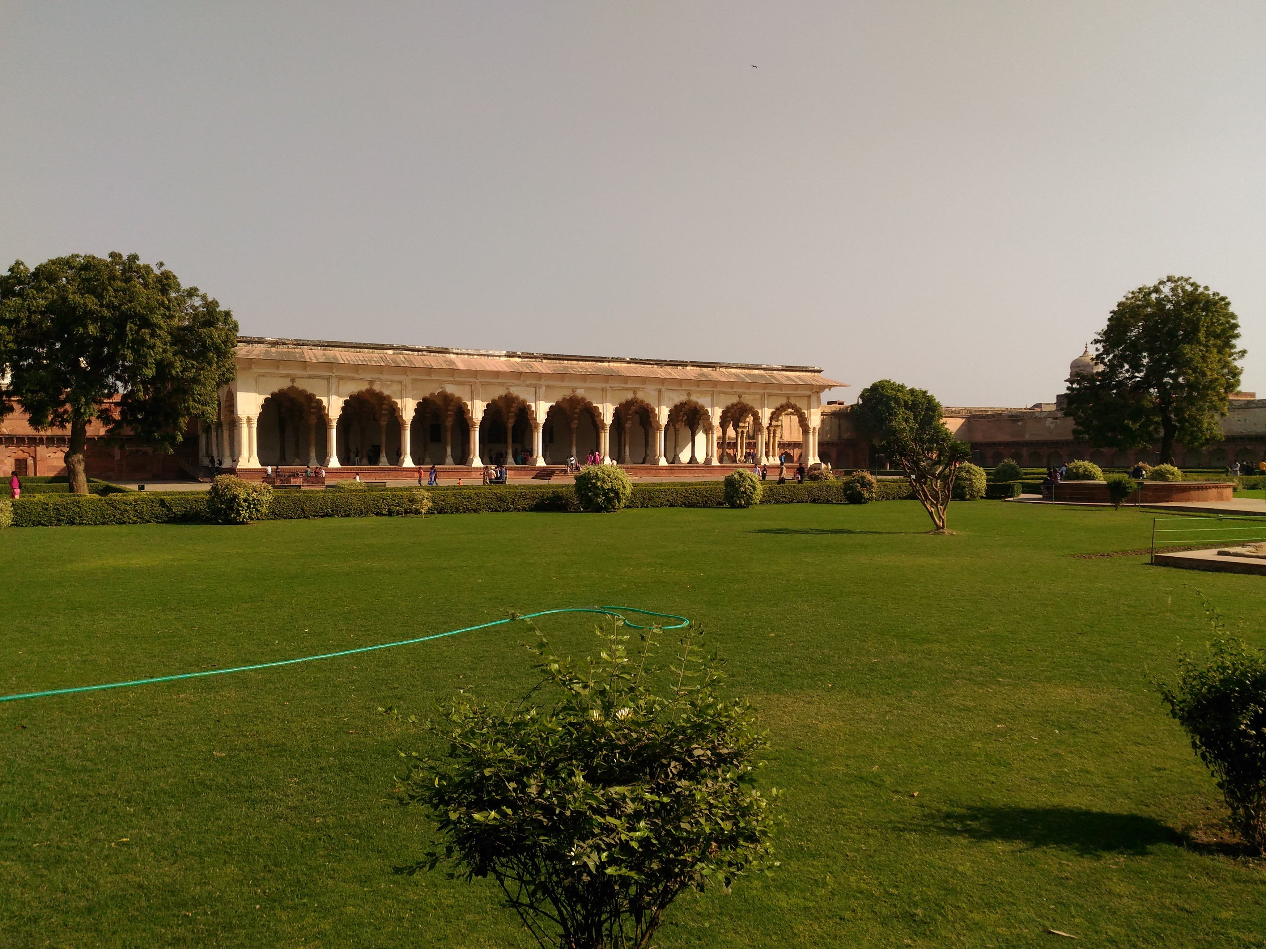 Agra fort diwan e aam lawn 3